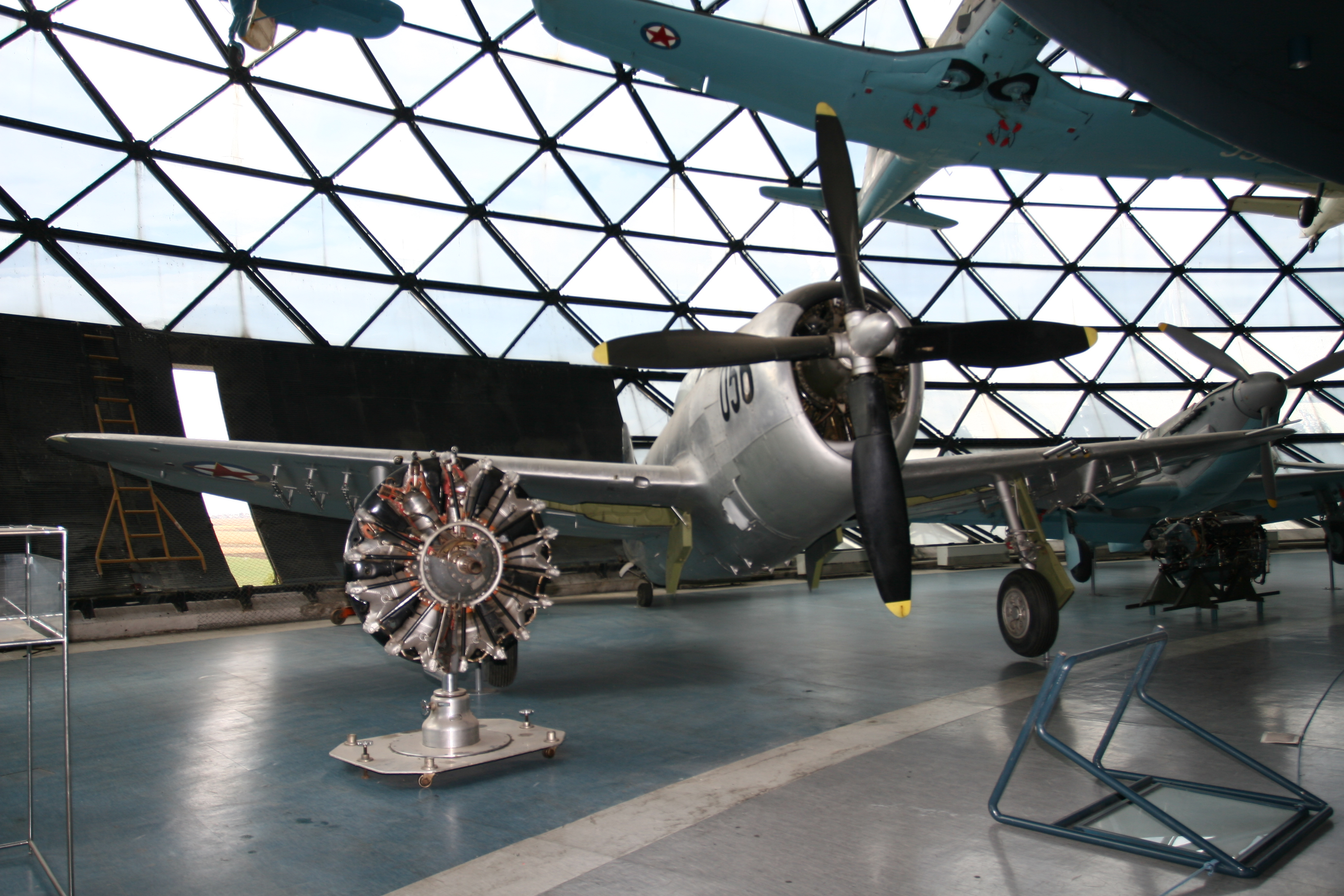 Republik F-47D Thunderbolt